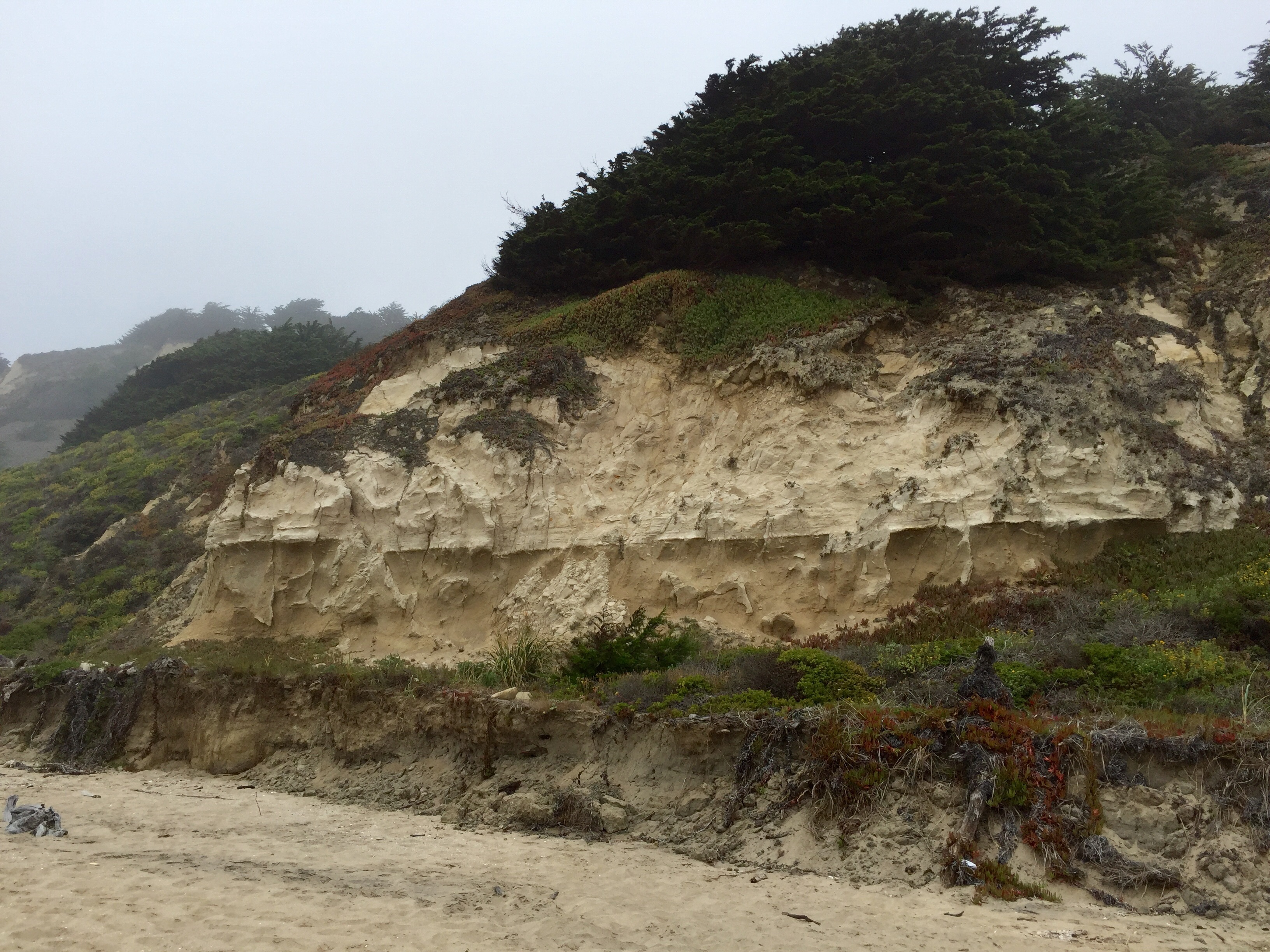 Marine sandstone, part of the Purisima Formation, at San Gregorio State Beach in California.